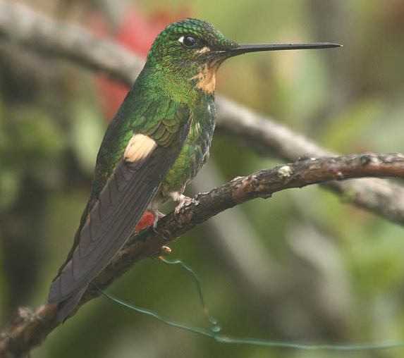 Female Buff-winged Starfrontlet (Coeligena lutetiae), Yanacocha Reserve, NW Ecuador, 3/8/2007